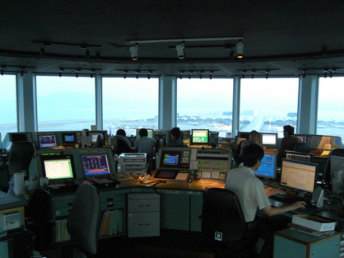 A snapshot of the interior of the Airport Control Tower in Hong Kong